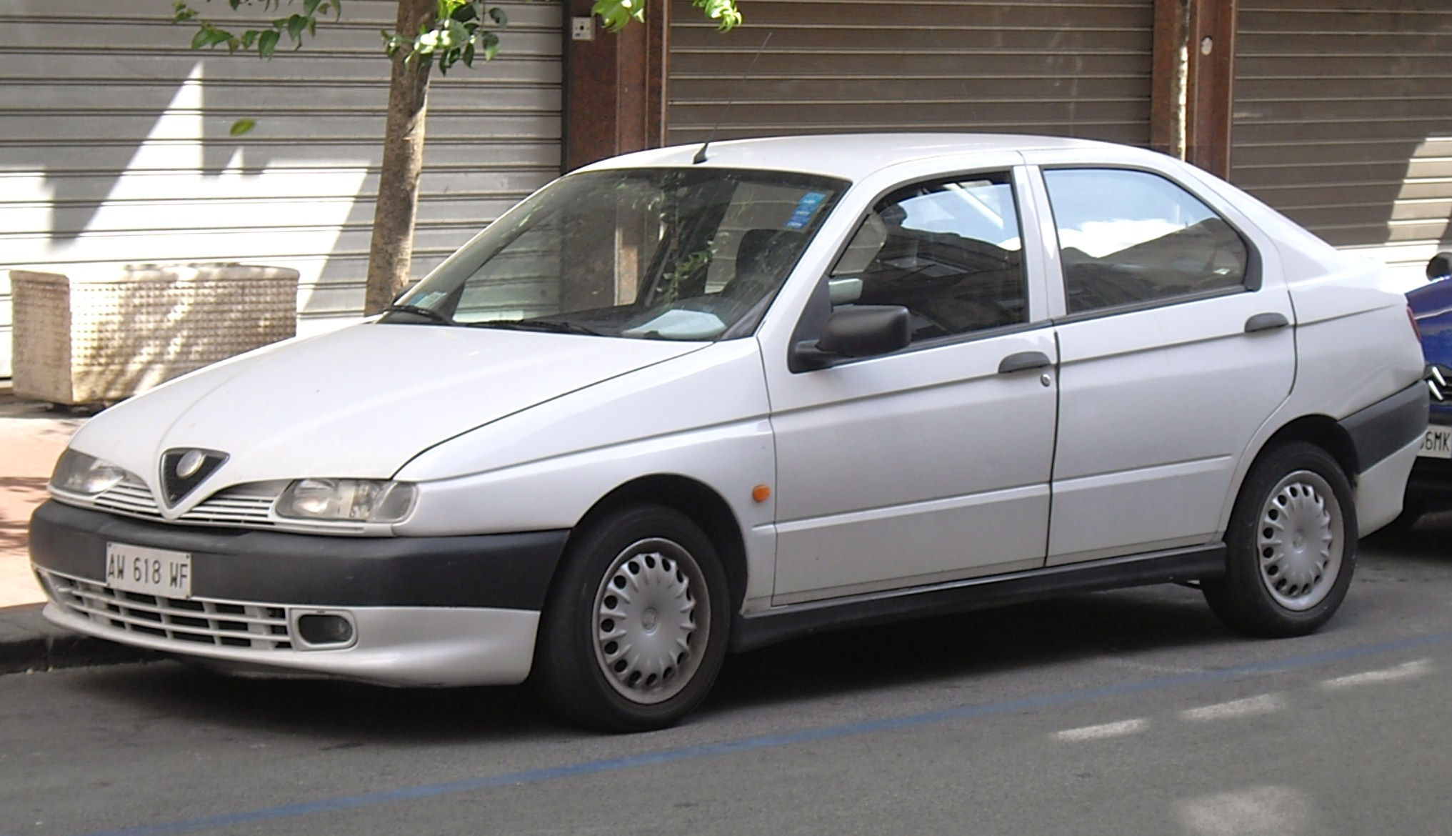 Alfa Romeo 146